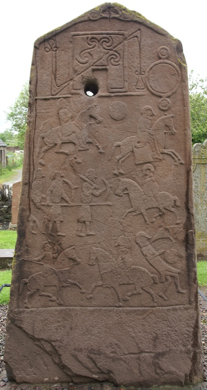 Aberlemno, Angus, Scotland - Churchyard Cross Slab, side depicting a battle